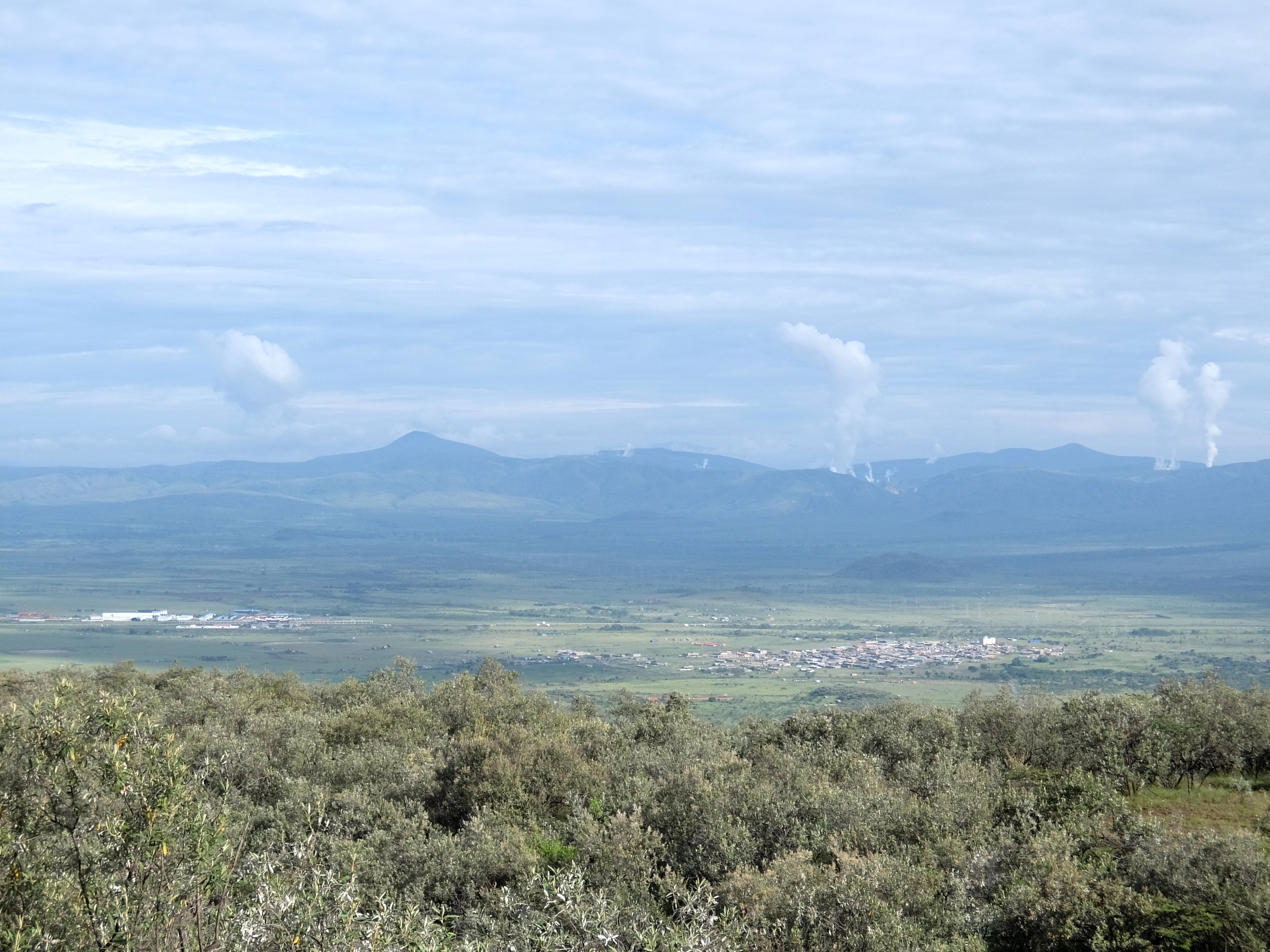 Suswa is a settlement along the Nairobi-Narok highway, at the foot of Mount Suswa. The town is seen on the right and on the left is the SGR train station. In the background vapour from the Olkaria Geothermal plant can be seen. Also visible are the transmission lines leading to Suswa sub-station.